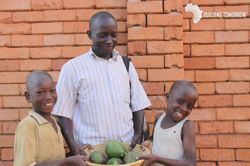 Jjumba Cypriot, Building Tomorrow Community Organizer